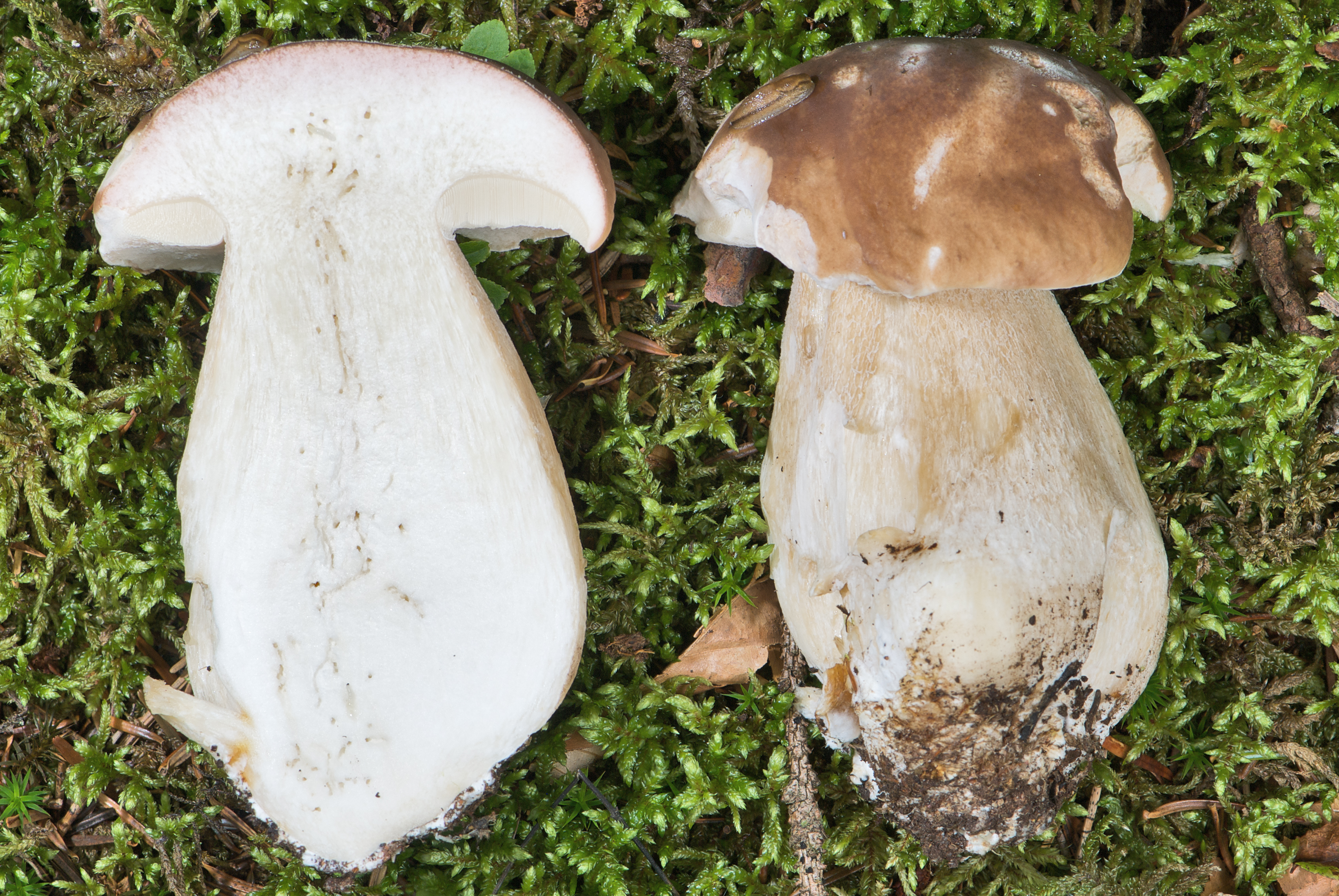 Boletus edulis is an edible mushroom in the Basidiomycete phylum. The fruiting body of the specimen in the picture has been growing for about four days and is about 130 mm tall. It was cut apart to display the interior.